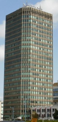 Capital Tower, Cardiff, Wales